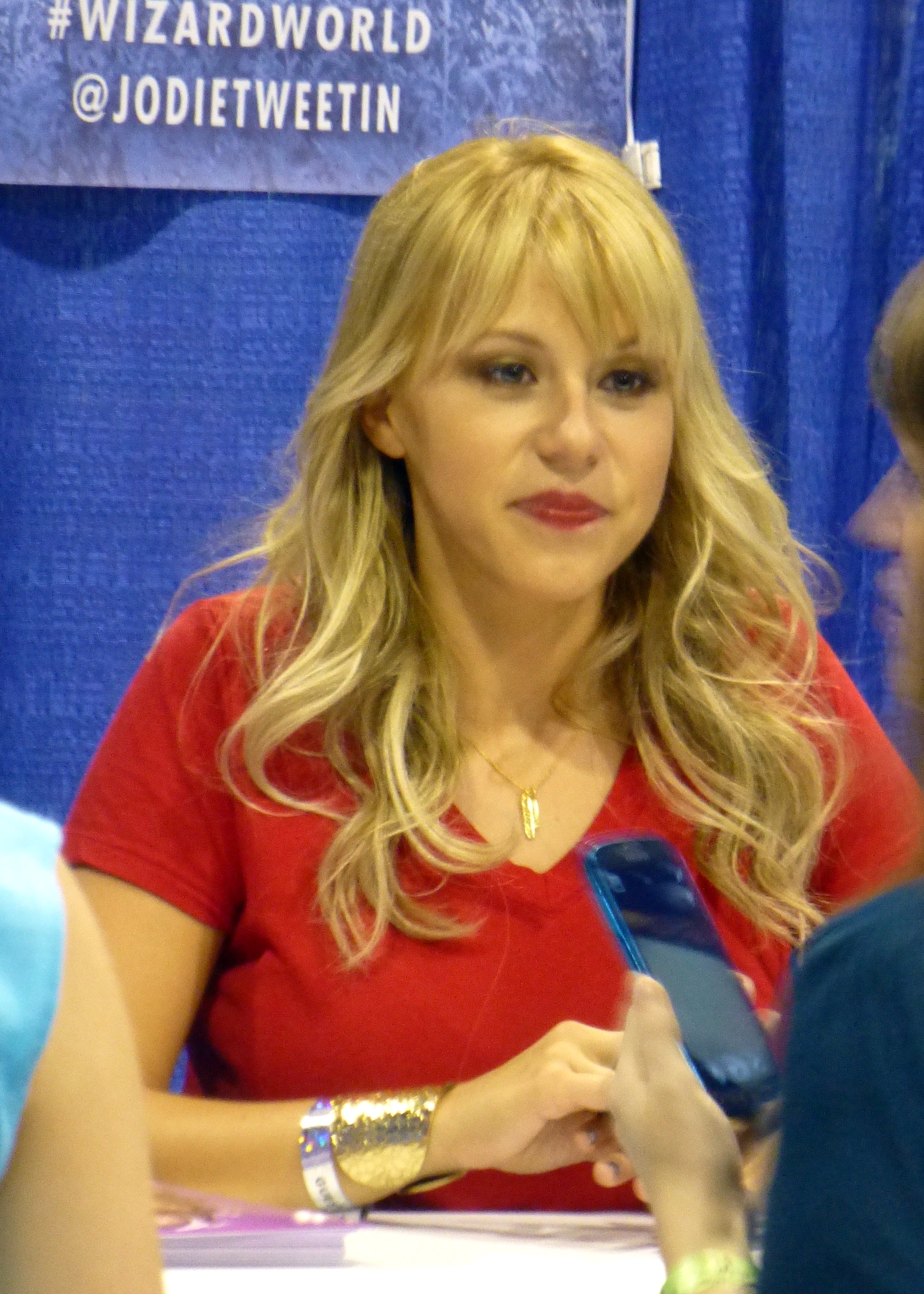 Jodie Sweetin 01 Guests at the 2015 Wizard World Chicago.